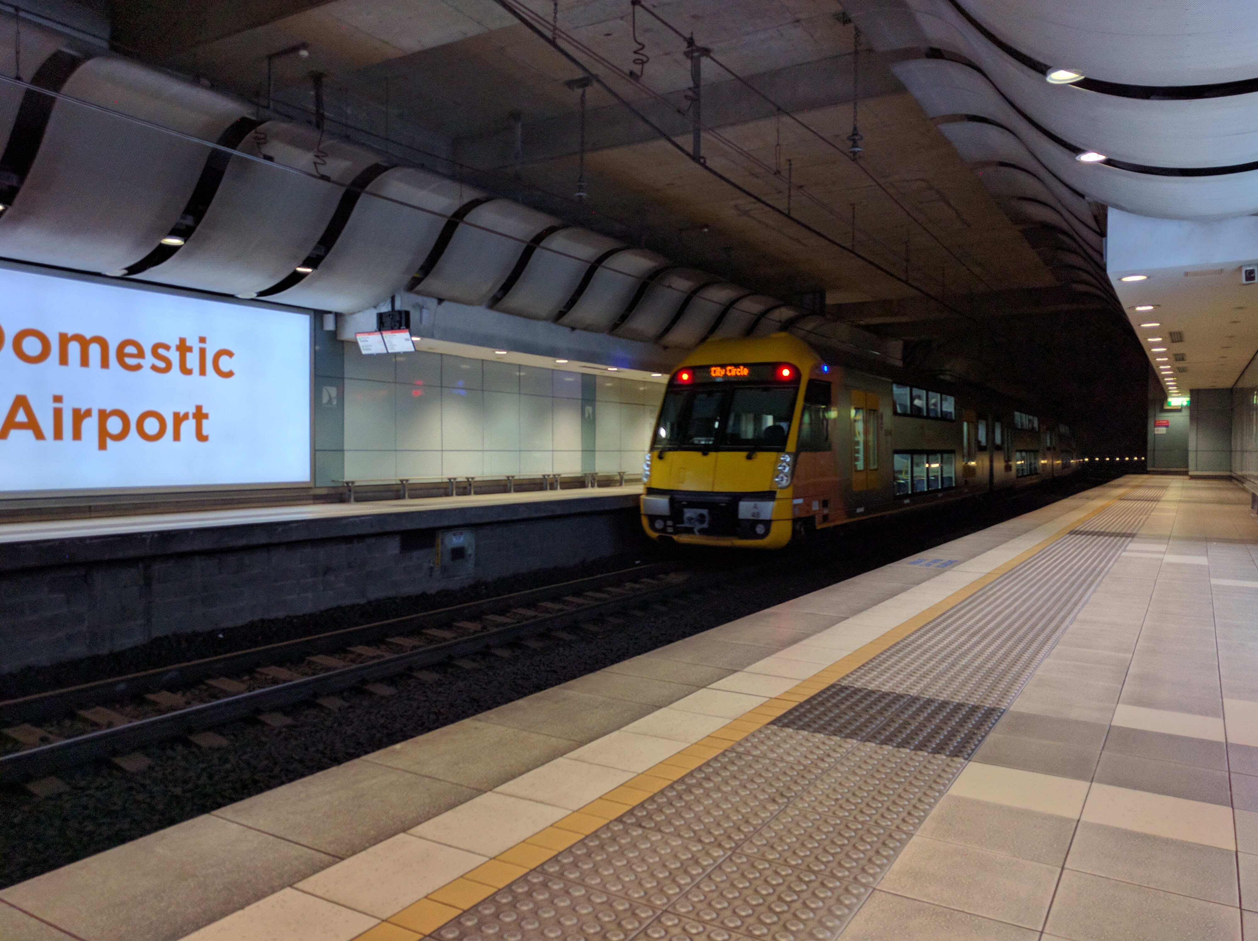 Sydney Domestic Airport Station